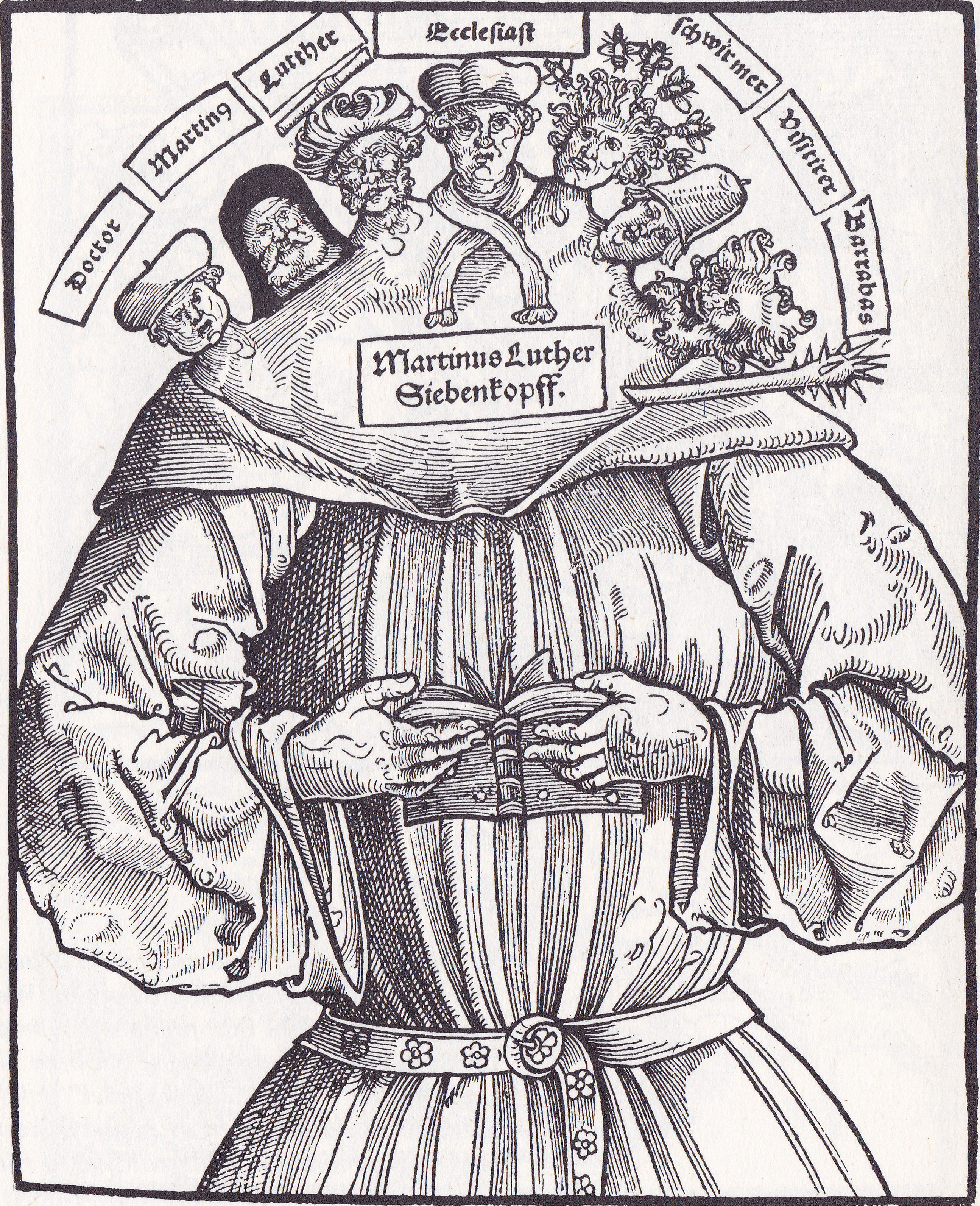 Satirical image of Luther with seven heads. (From a pamphlet by Johann Cochläus.)